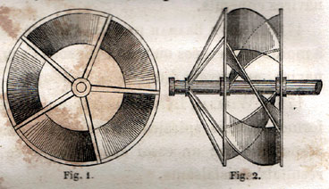 1823: Propeller picture from Capitaine Delisle